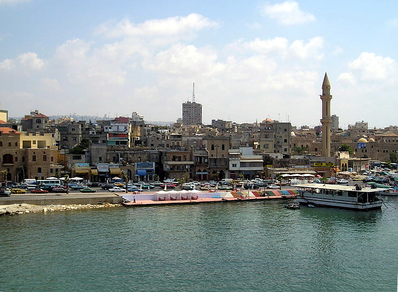 Sidon, Lebanon - a view of the old city from the Sea Castle